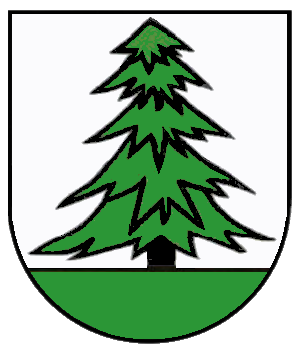 Coat of Arms of Lichtentanne